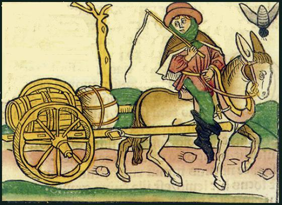 A woodprint of the fable of the fly and the mule, later colored, from the 1464 Ulm edition of Steinhöwel's collection of Aesop's Fables